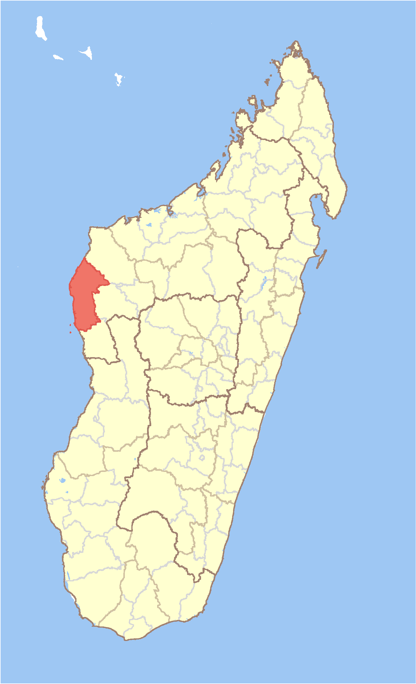 Map of Madagascar with Maintirano District highlighted